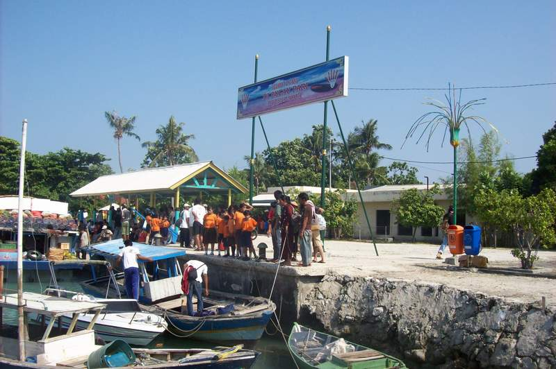 Pari Island Port